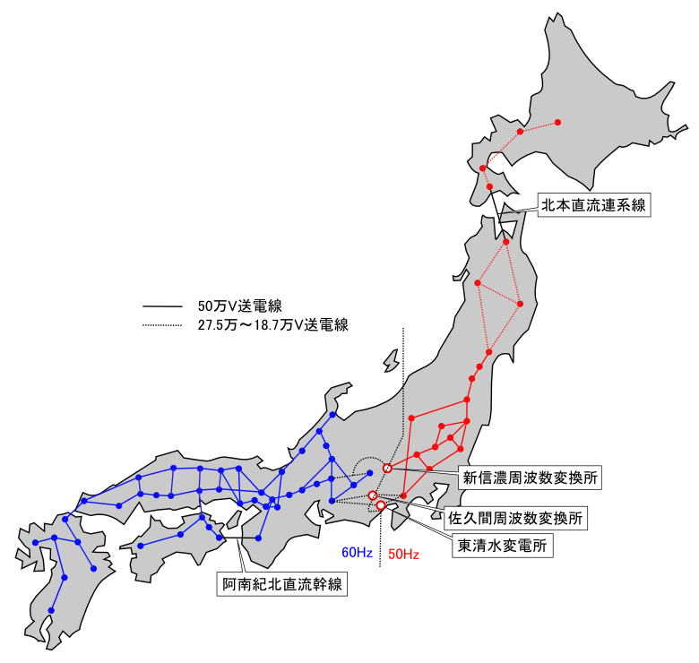 Power Grid of Japan – added a Shinshimizu substation